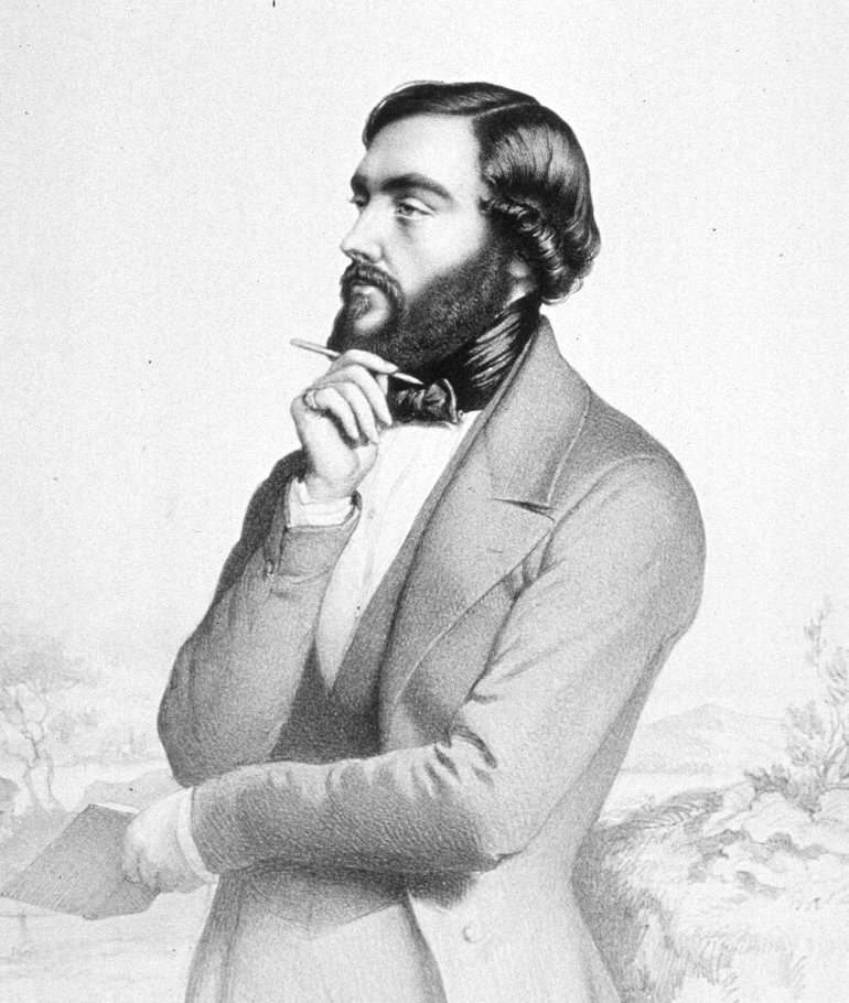 Joseph Marie Eugène Sue (20 January 1804 – 3 August 1857)